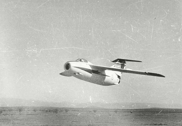 The fifth prototype IAe 33 Pulqui II jet fighter during flight testing.